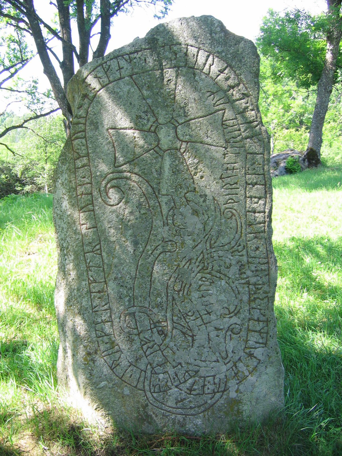 Runestone U 73 near the hostel Hägerstalund in Stockholm's northern suburbs, in Uppland, Sweden.